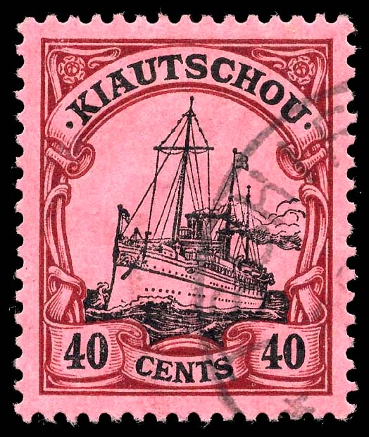 Kiauchau 40c stamp of 1905